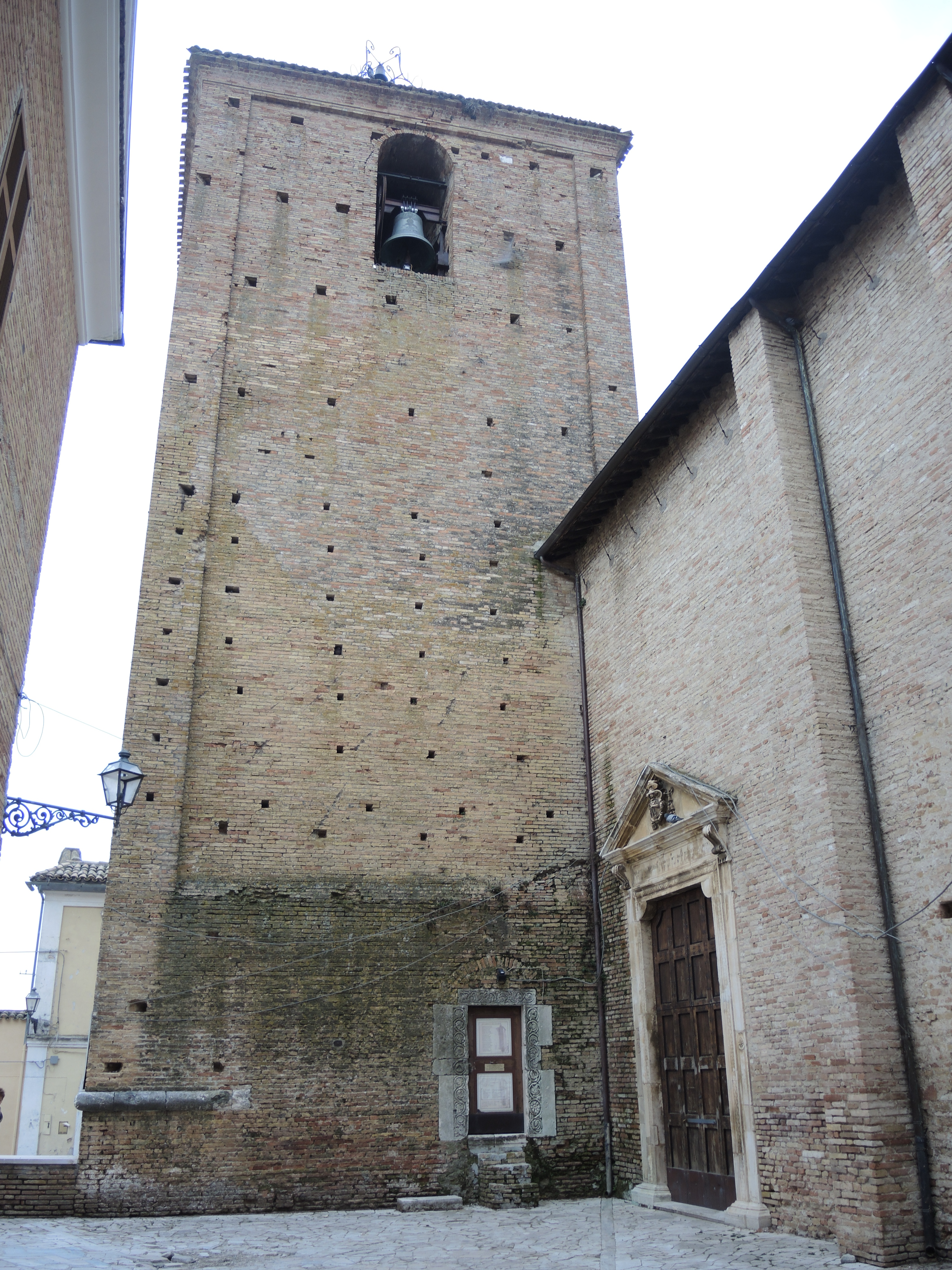 Penne: Duomo di San Massimo